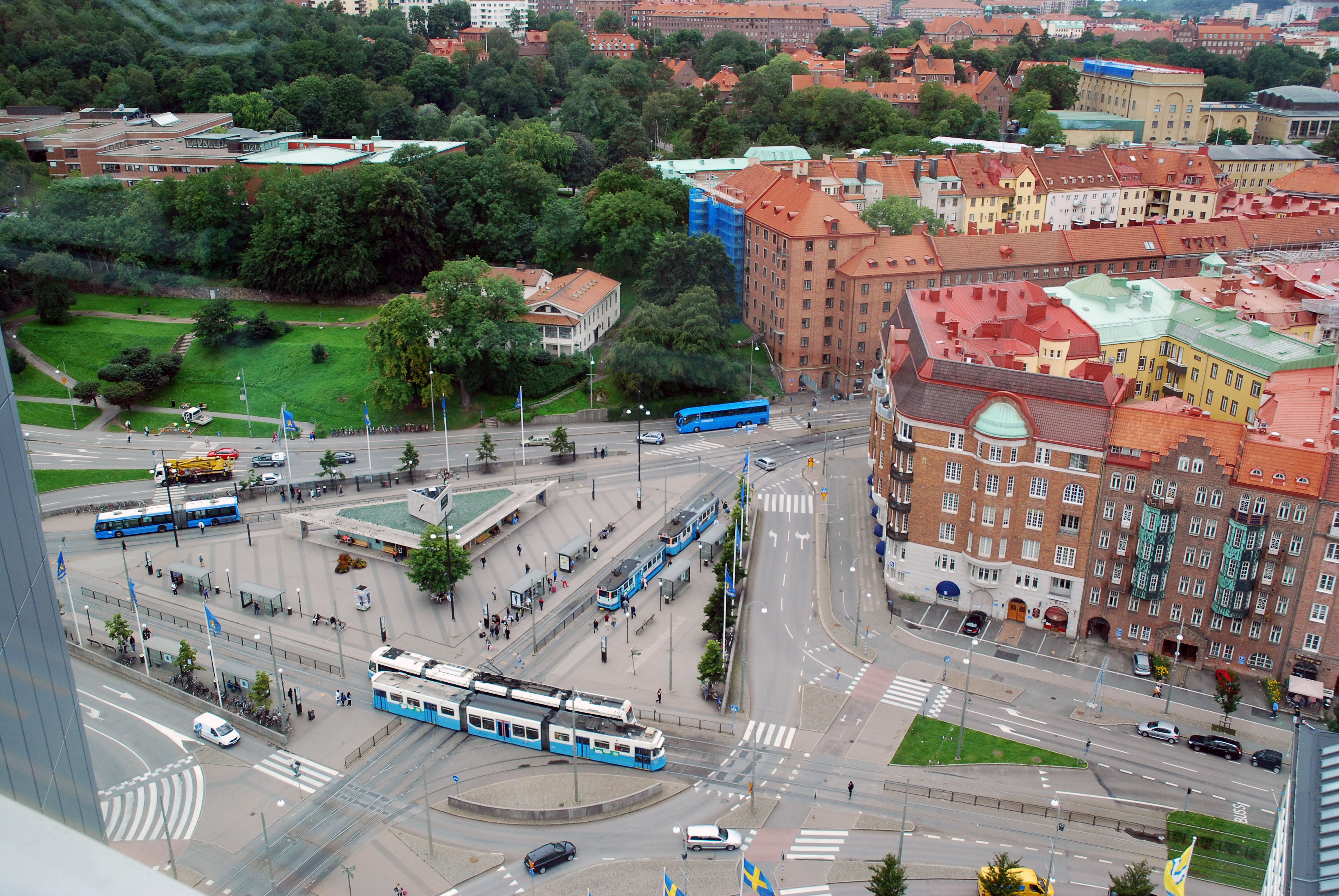 taken through a window(hence the reflections!),Aug 2009